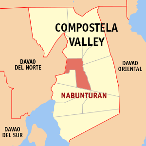 Map of the Compostela Valley showing the location of Nabunturan